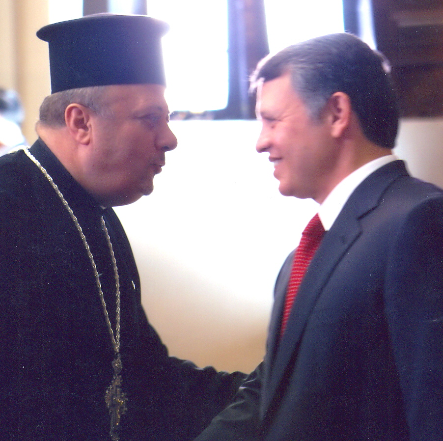 Father Nabil Haddad, Founder and Director of the JICRC meeting King Abdullah II of Jordan